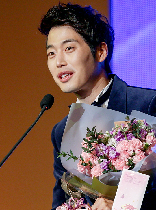 Kim Jaewon at the 20th Korean Culture and Entertainment Awards